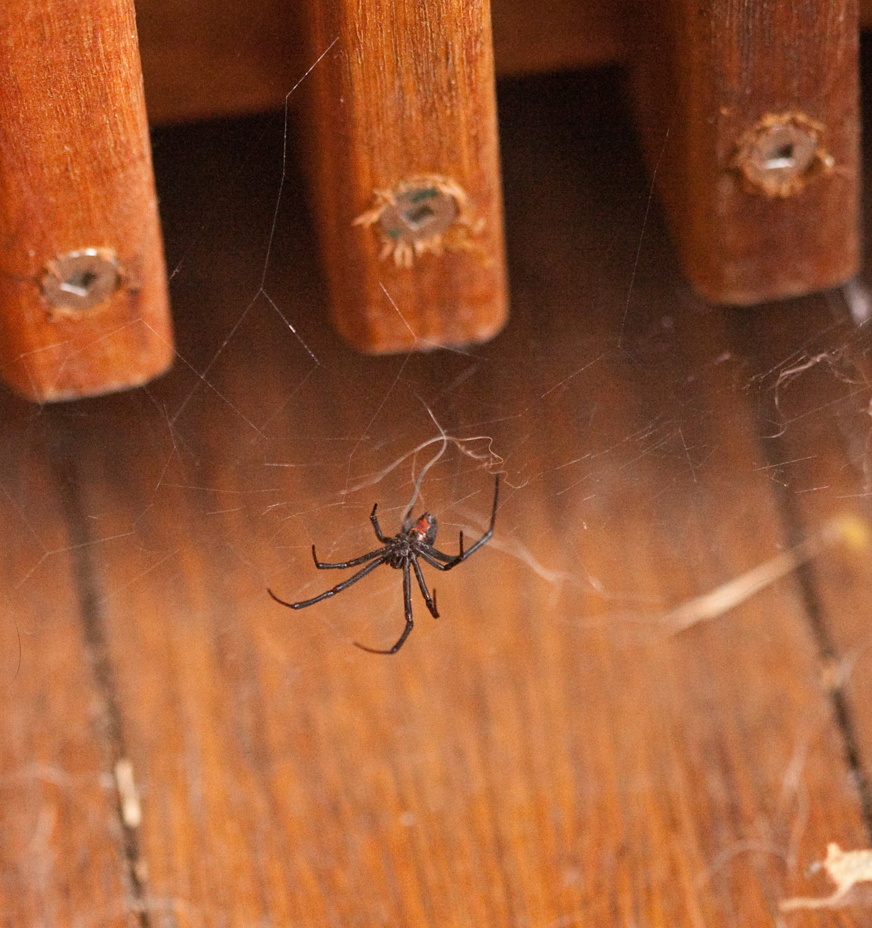 A redback spider (Latrodectus hasseltii) in a corner of a household deck in Sydney, Australia.